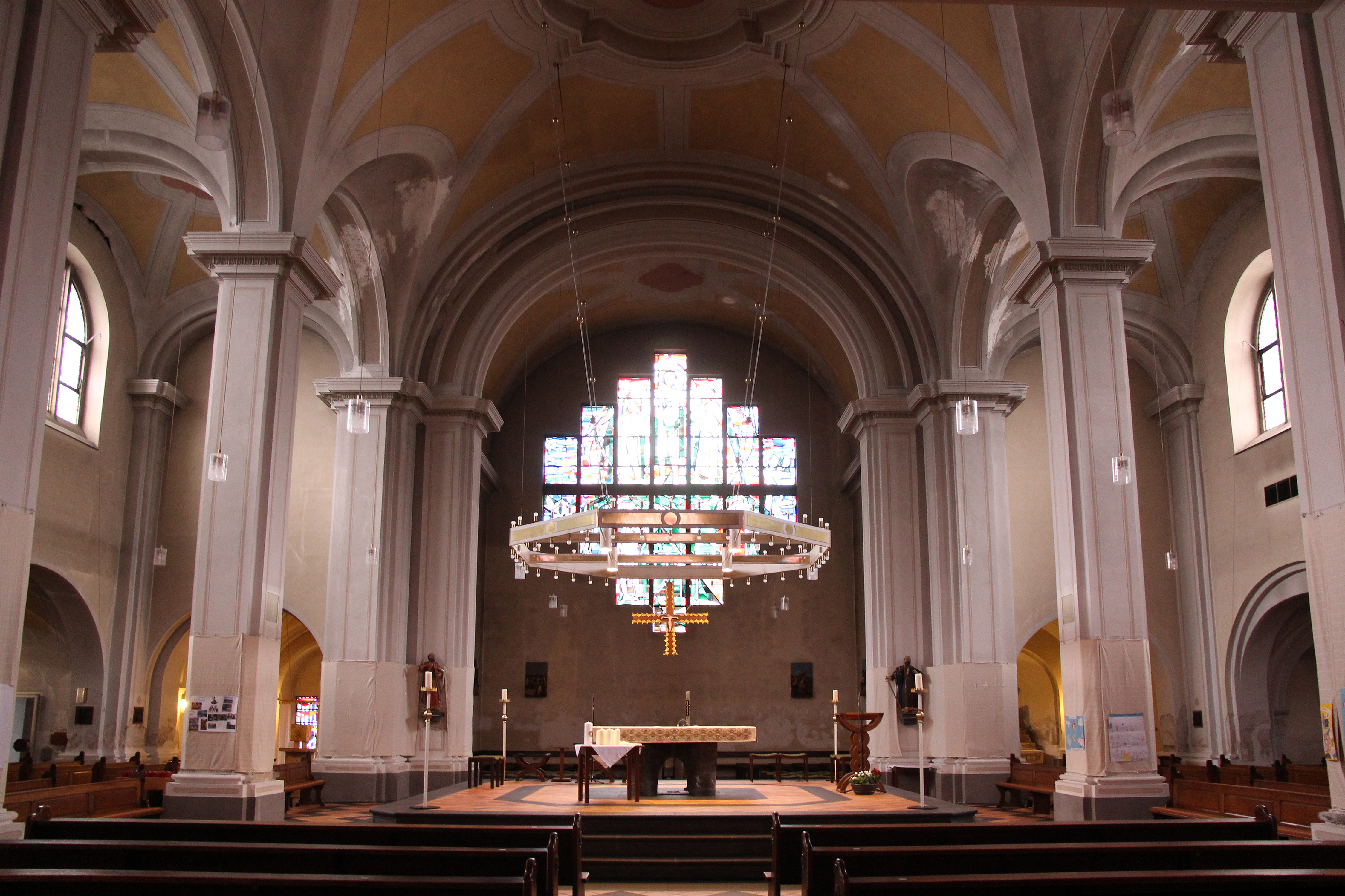 St. Peter church in Koblenz